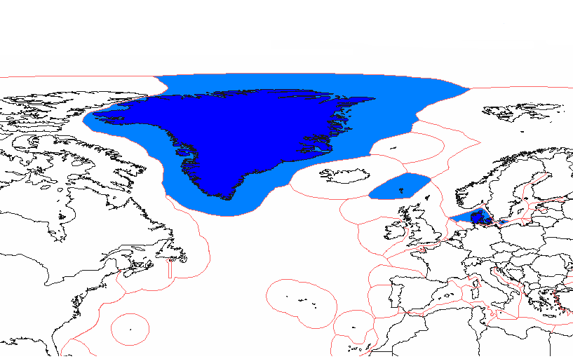 EEZ of the Kingdom of Denmark (including Greenland and the Faroese).